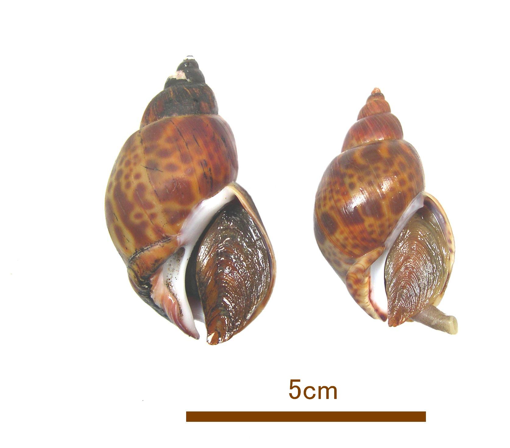 Babylonia japonica (Reeve,1842) (Gastropoda:Babyloniidae) caught off the coast of Niigata Pref.,Honshu, Japan in 2005.